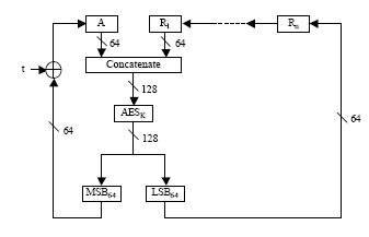 AES key wrap diagram from the NIST specification